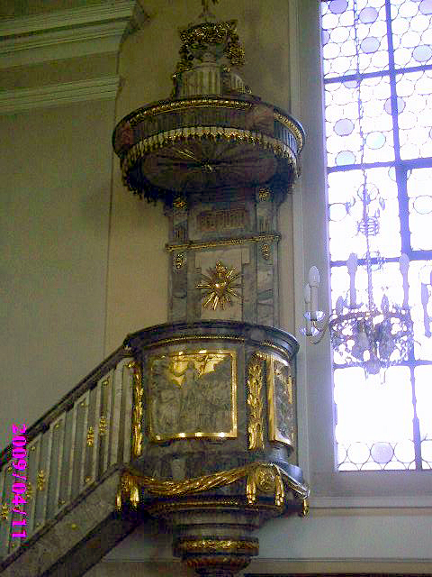 Classicist pulpit with relief from Vollmer, church Schwerzen